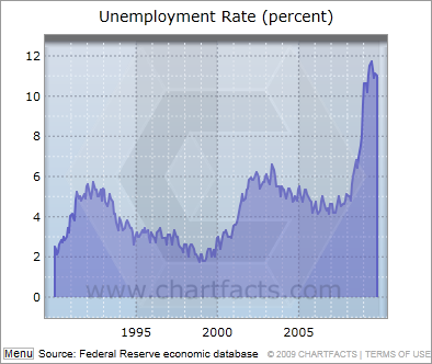 Unemployment rate for Mecklenburg County, NC.